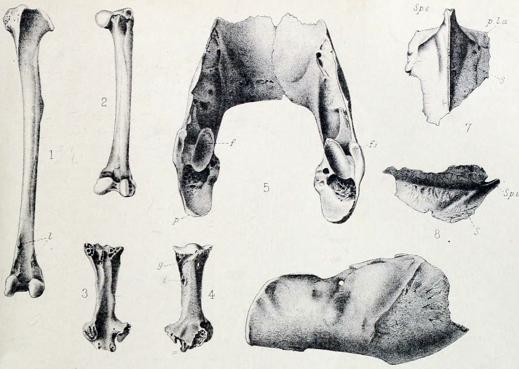 1–8: Lophopsittacus mauritianus subfossils 1 Left tibia, front view. l: attachments of the transverse ligament across the long extensor tendons. 2 Right femur, posterior view. 3 Left metatarsus, plantar surface. 4 Left metatarsus, dorsal surface, g: groove for the tendon of the musculus extensor digitorum; i: insertion of the tendon of the m. tibialis anticus. 5 Dorsal view of the underjaw. p: posterior angle; f: facet for the quadrate; fi: additional facet for the jugal process of the quadrate. 6 Lateral view of the right jaw. 7 Ventral view of sternum. Sp.e.: spina externa sterni; p.l.a.: anterior lateral process; S: lateral line of m. subclavius. 8 Right lateral view of sternum. Sp.i.: spina externa sterni ; S: median line of m. subclavius.